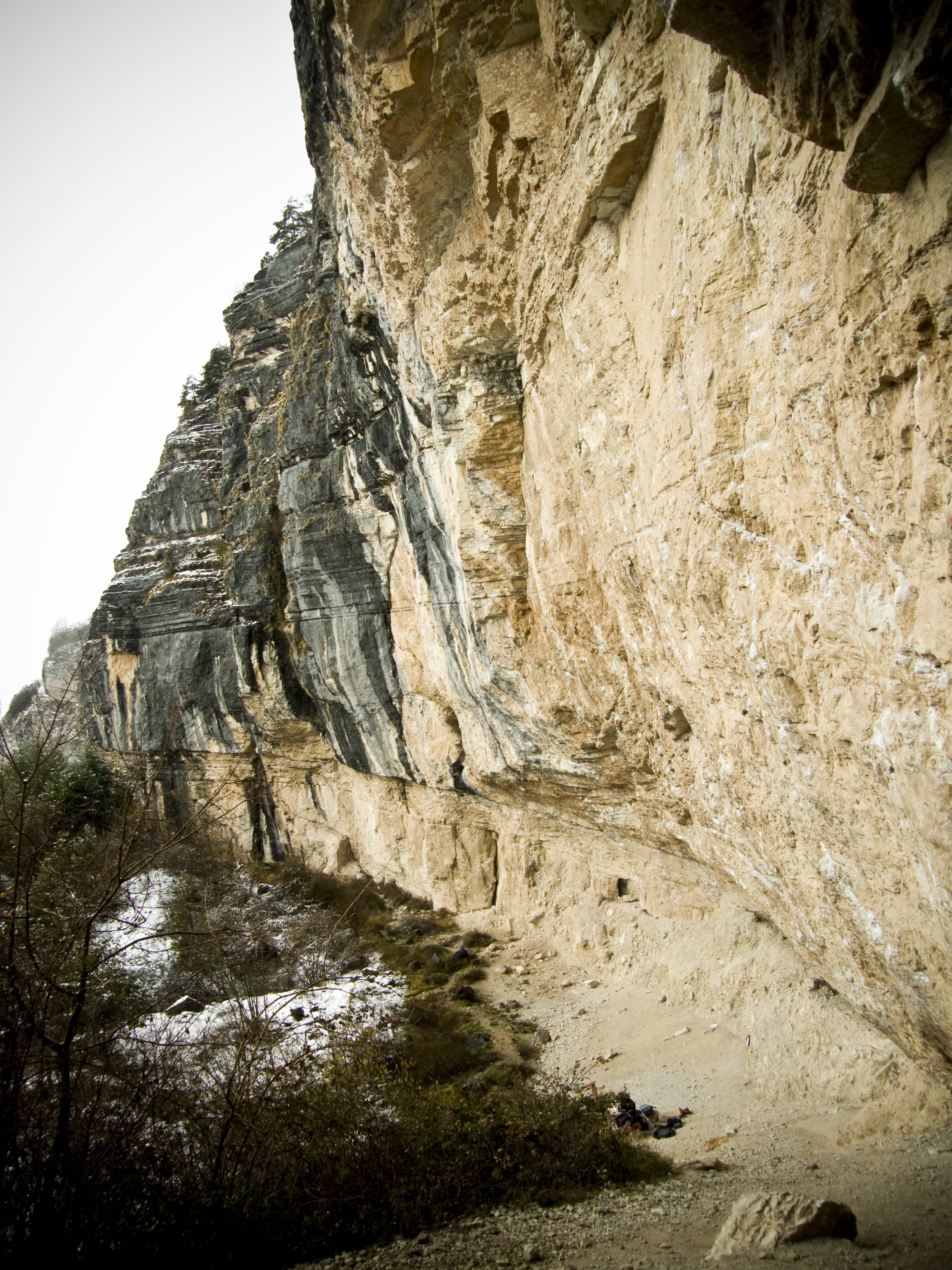 Erto, Big sector, Italy